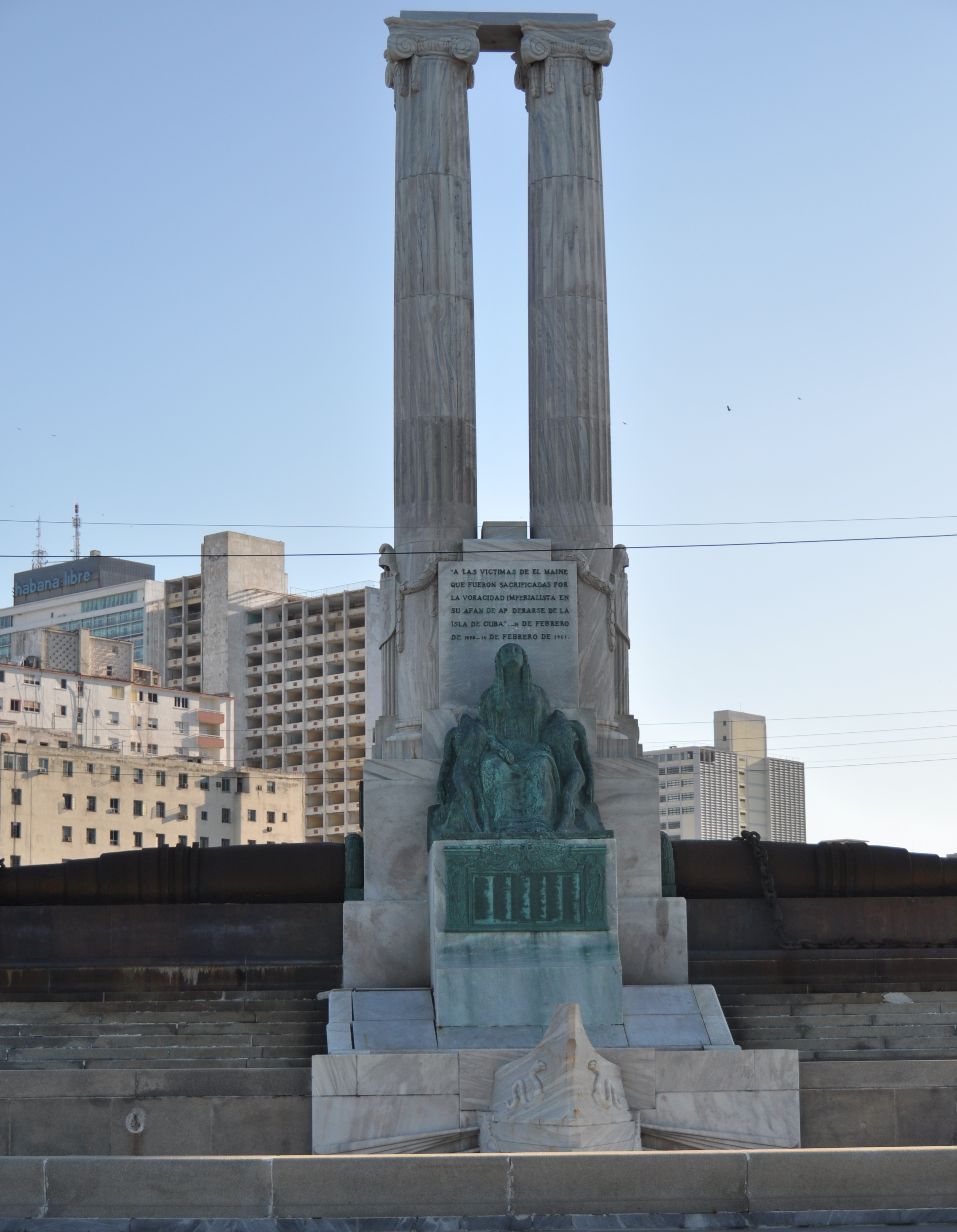 Monument for the victims at the U.S.S. Maine in Havana